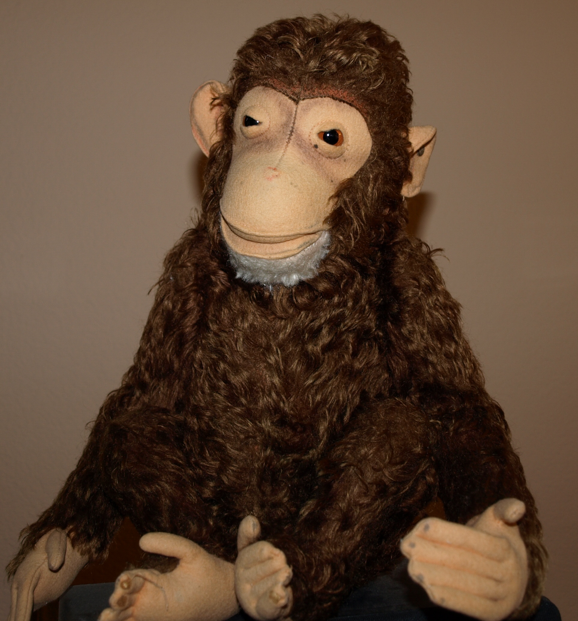 1960's era "Jocko" monkey by Steiff